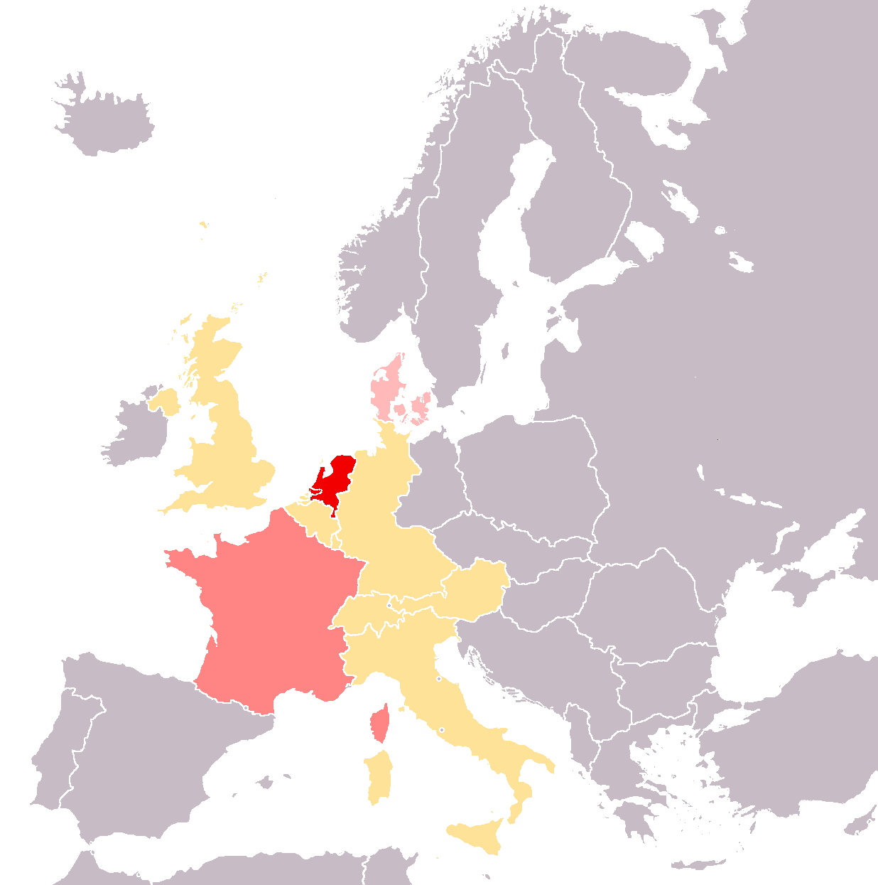 Map of Eurovision 1957